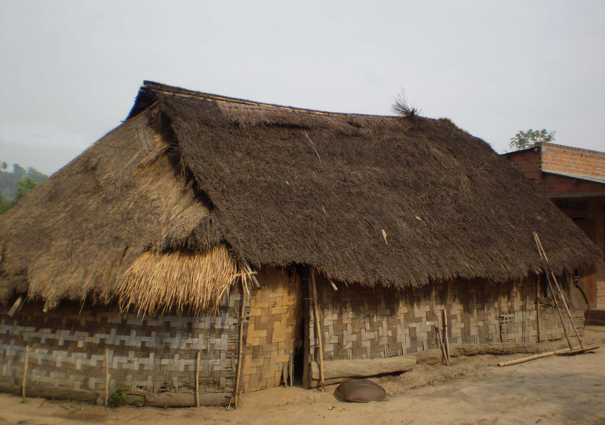 A house by M'Nong gar people, Vietnam